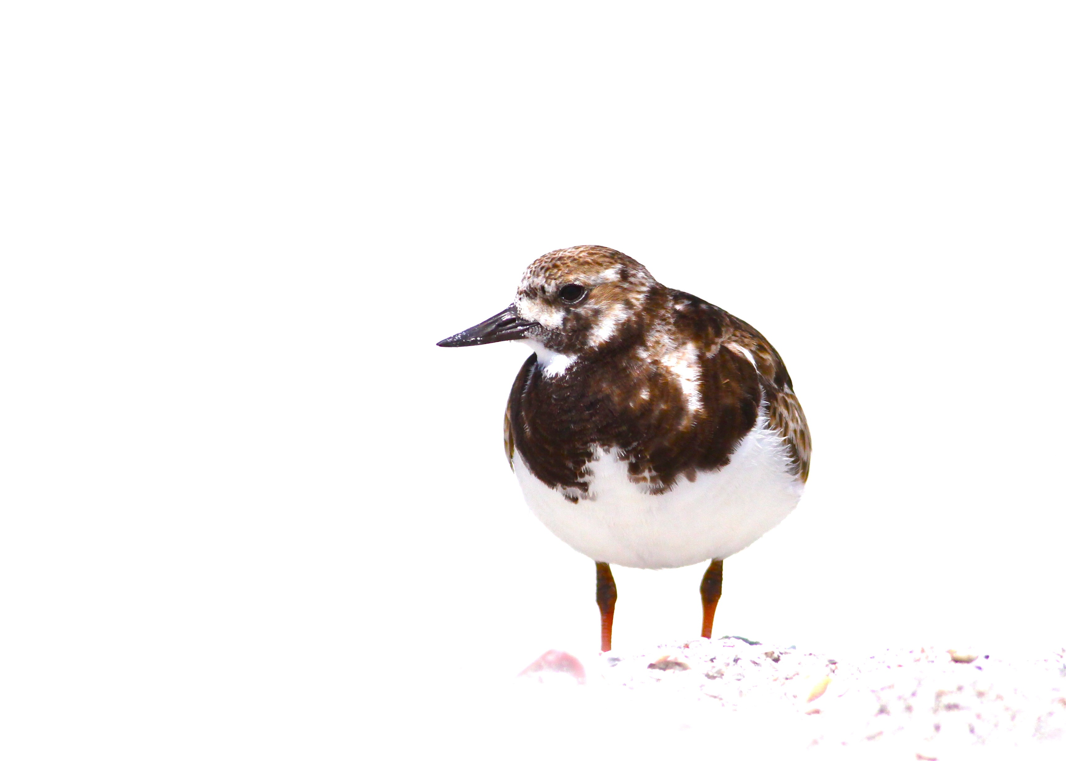 high key style